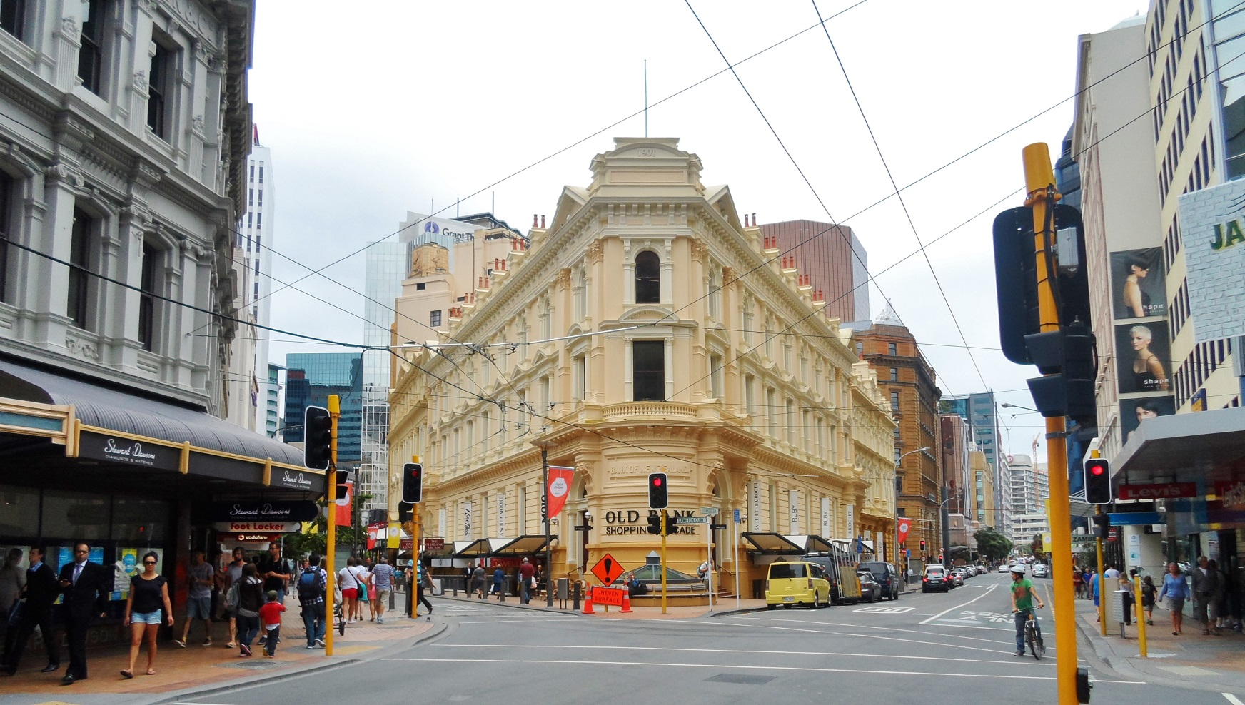 Old Bank Shopping Arcade in Wellington, New Zealand in 2015.